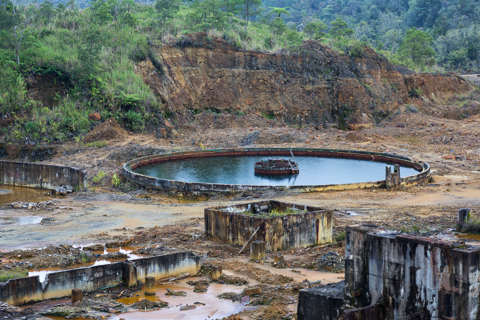 Ranau, Sabah: Mamut Copper Mine. The thickener: after the 8 stage flotation, the concentrate was thickened here